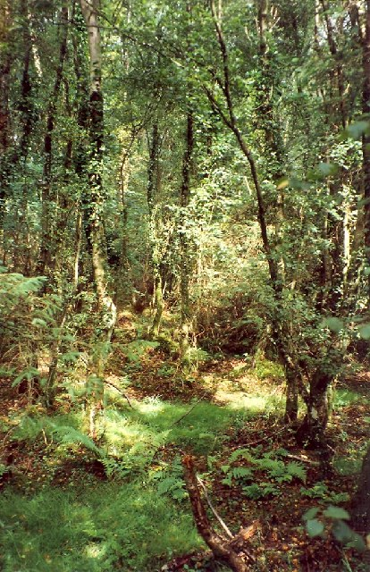 Wet Woodland at the Greenwood Centre, Llanddeiniolen. This was taken, in 1993, from the board walk across a wet woodland floor.